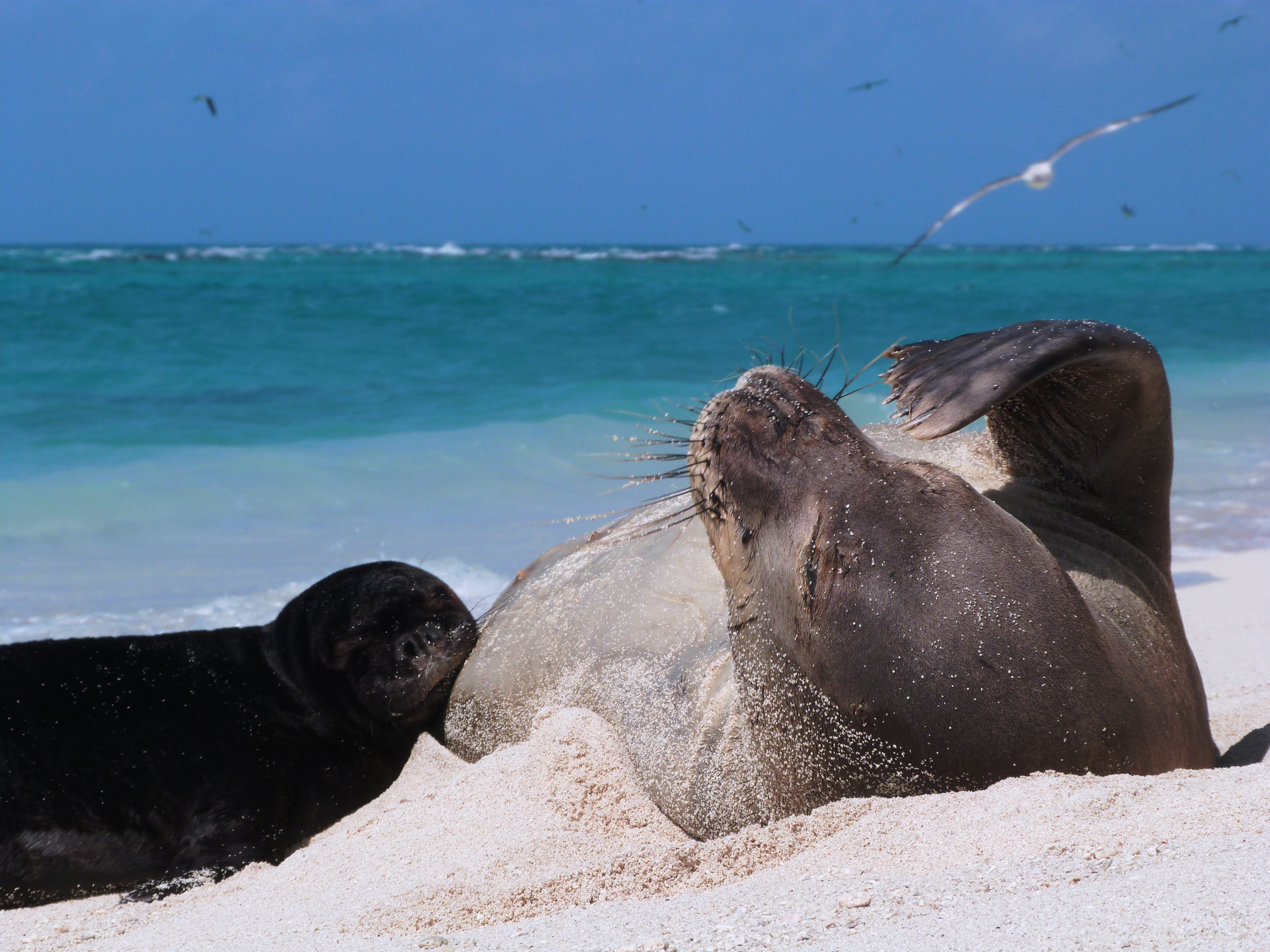 This Hawaiian monk seal is having an excellent weekend catching some rays -- are you? Hawaiian monk seals live throughout the Hawaiian Islands, including in Papahānaumokuākea Marine National Monument. These seals are very endangered: only about 1,400 of them remain in the wild. However, there is good news! After about six decades of population decline, the Hawaiian monk seal population has actually risen every year for the last three years. An estimated 30 percent of the seals alive today are here because they benefited from a lifesaving intervention or are the child or grandchild of a female that benefitted. Thank you to our partners NOAA Fisheries, the Hawai‘i Department of Land and Natural Resources, the U.S. Fish and Wildlife Service, the U.S. Coast Guard, and others for helping us save Hawaiian monk seals! Learn more about these efforts at . (Photo: Mark Sullivan/NOAA, under NMSF Research Permit #10137)